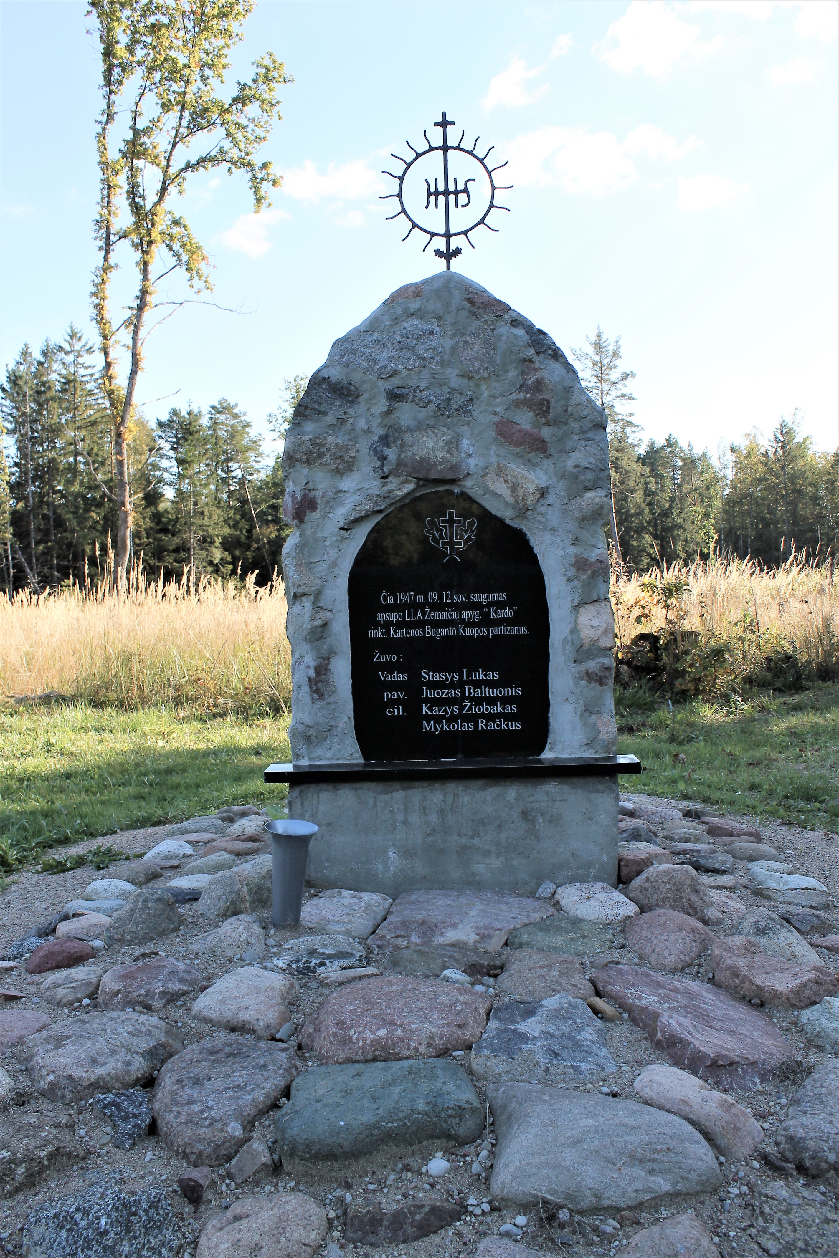 Voveraičiai monument to the partisans, Kretinga district, LithuaniaLietuvių: Voveraičių paminklas partizanams, Kretingos rajonas, Lietuva